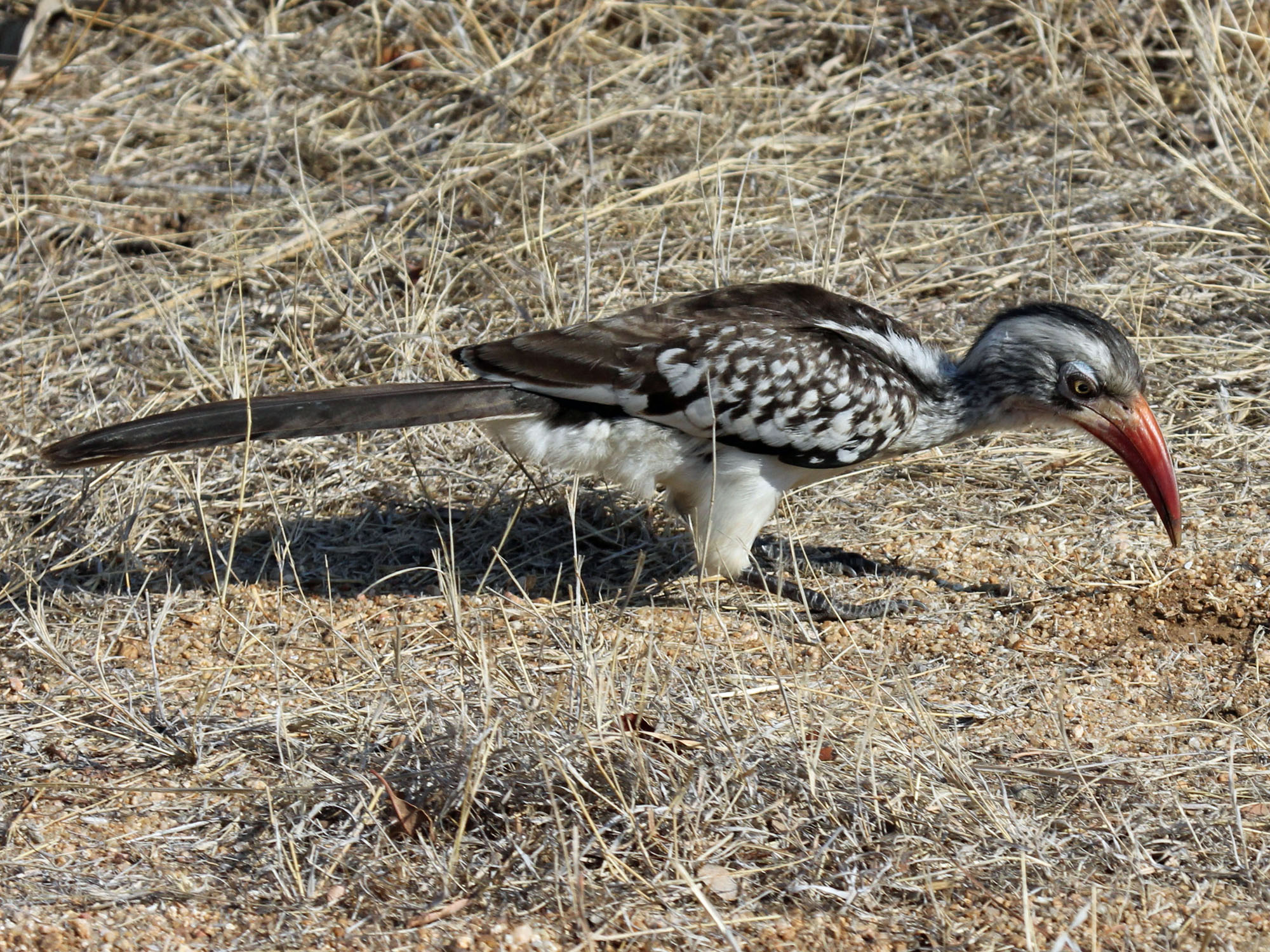 Southern Red-billed Hornbill (Tockus rufirostris), female - Kruger National Park, South Africa